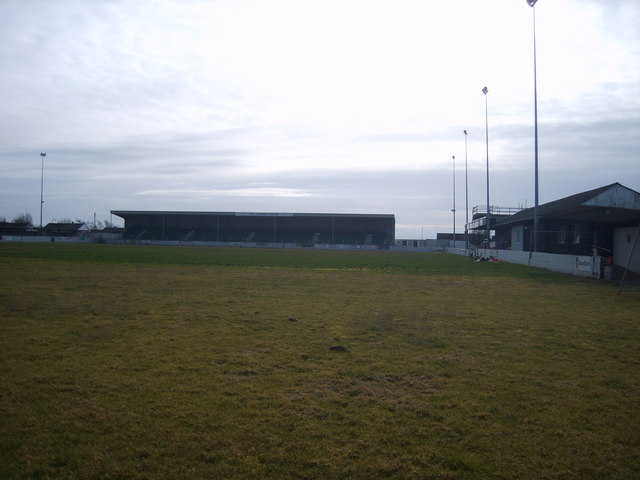 Raydale Park. Witness to the sad demise of Gretna FC